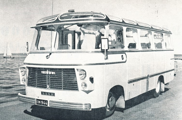 Sisu KB-24 sightseeing bus with 3 200 mm wheelbase. Coachwork by Ajokki. Used by city of Tampere in Finland.